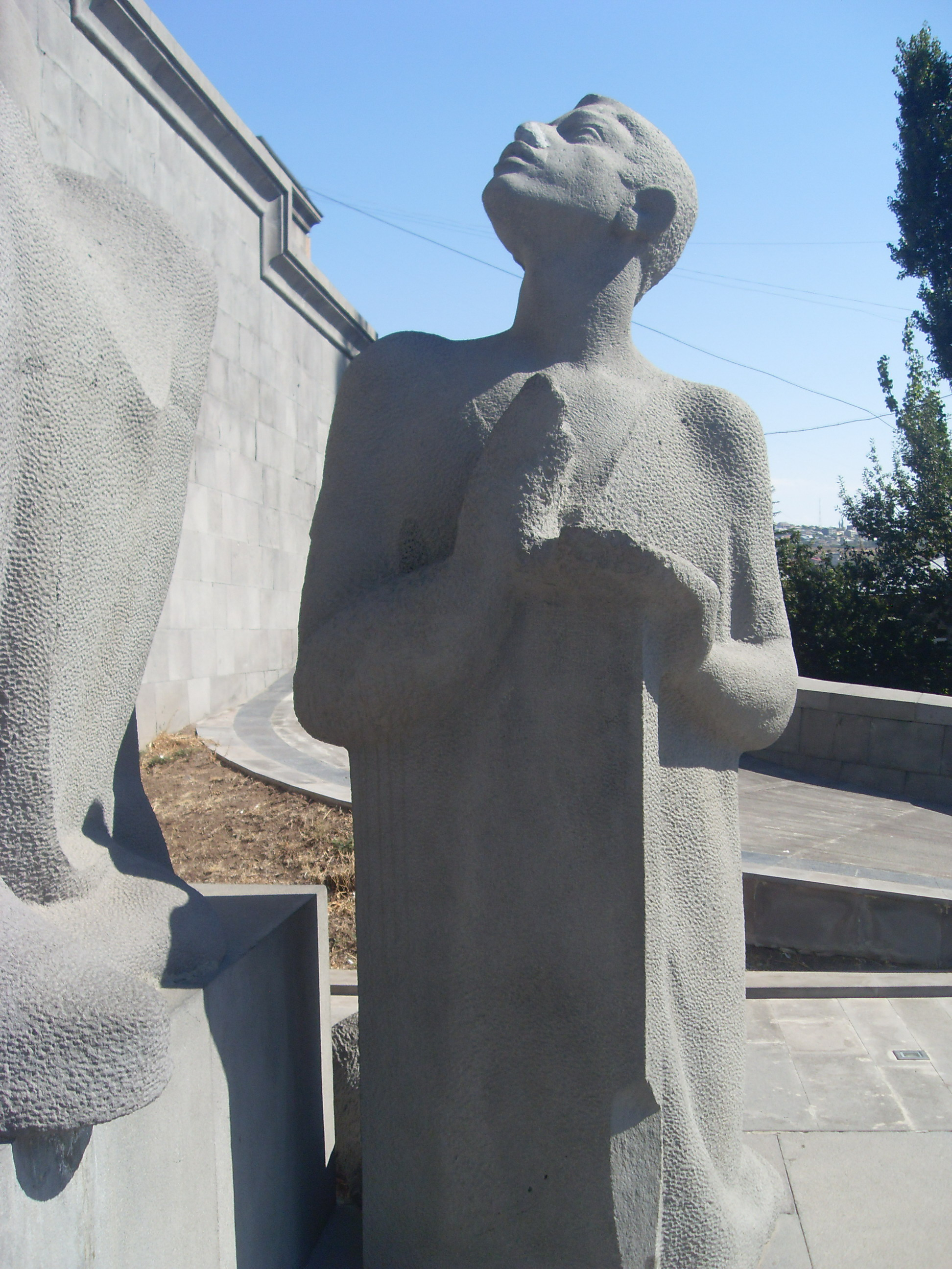 Monument of Mesrop Mashtots, 1962, sculp. Ghukas Chubaryan 6/81.6